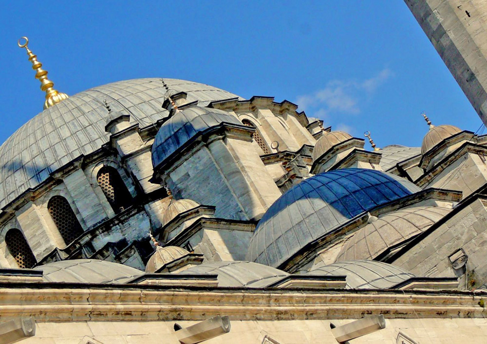 a Closer Look To The Dome Of the Mosque